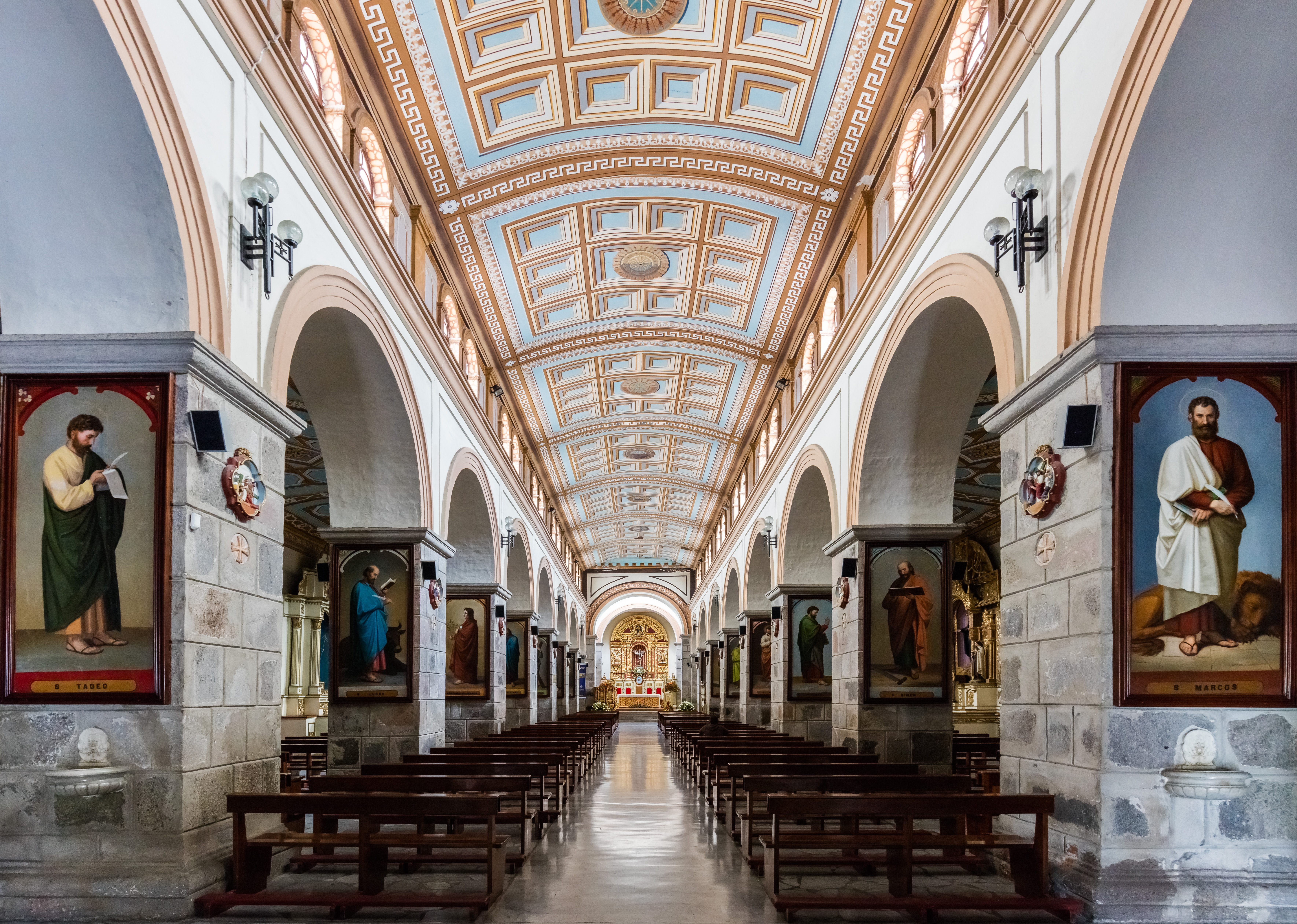 Church of the Cathedral, San Antonio de Ibarra, Ecuador